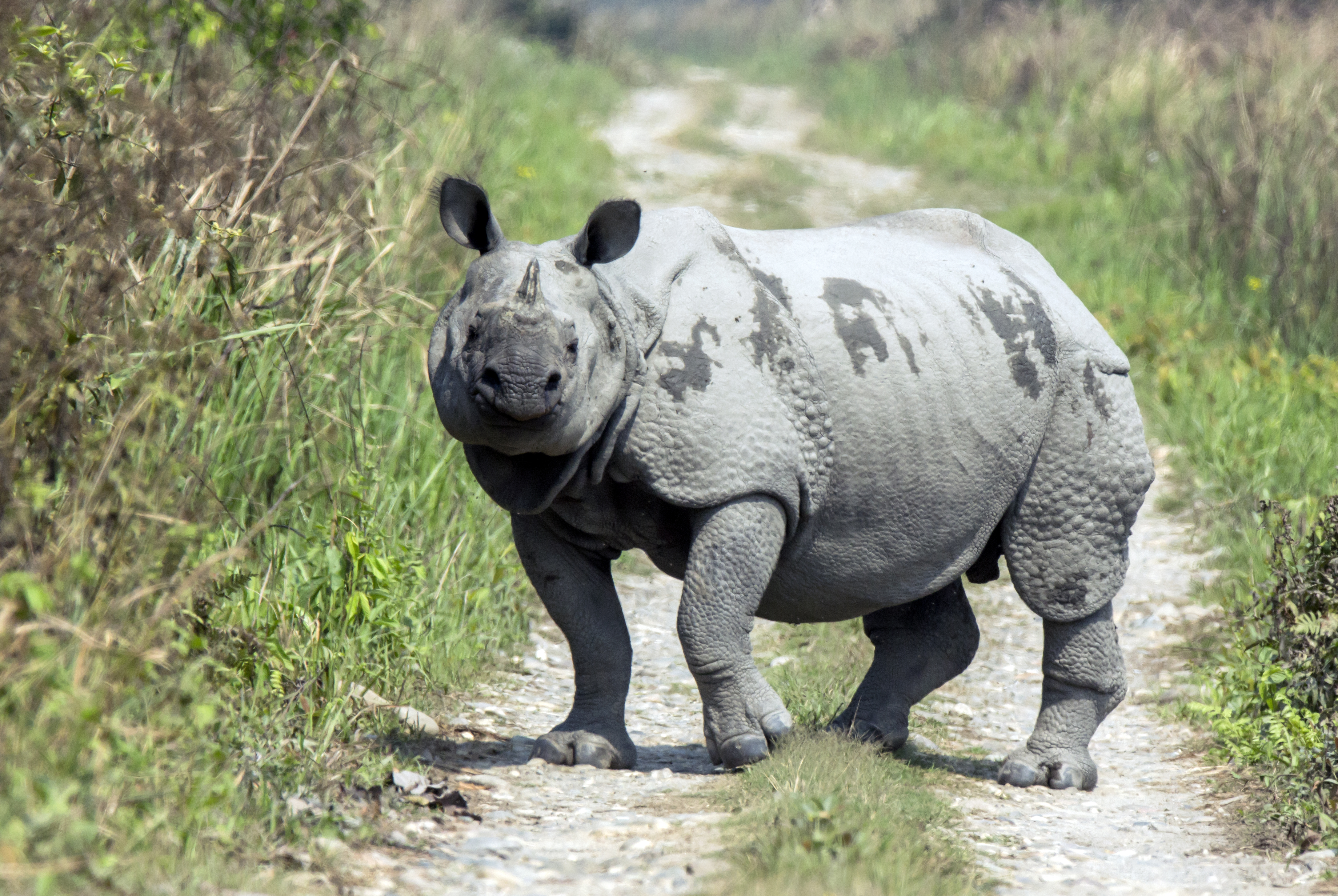 The shot was taken at Manas National Park, Assam.